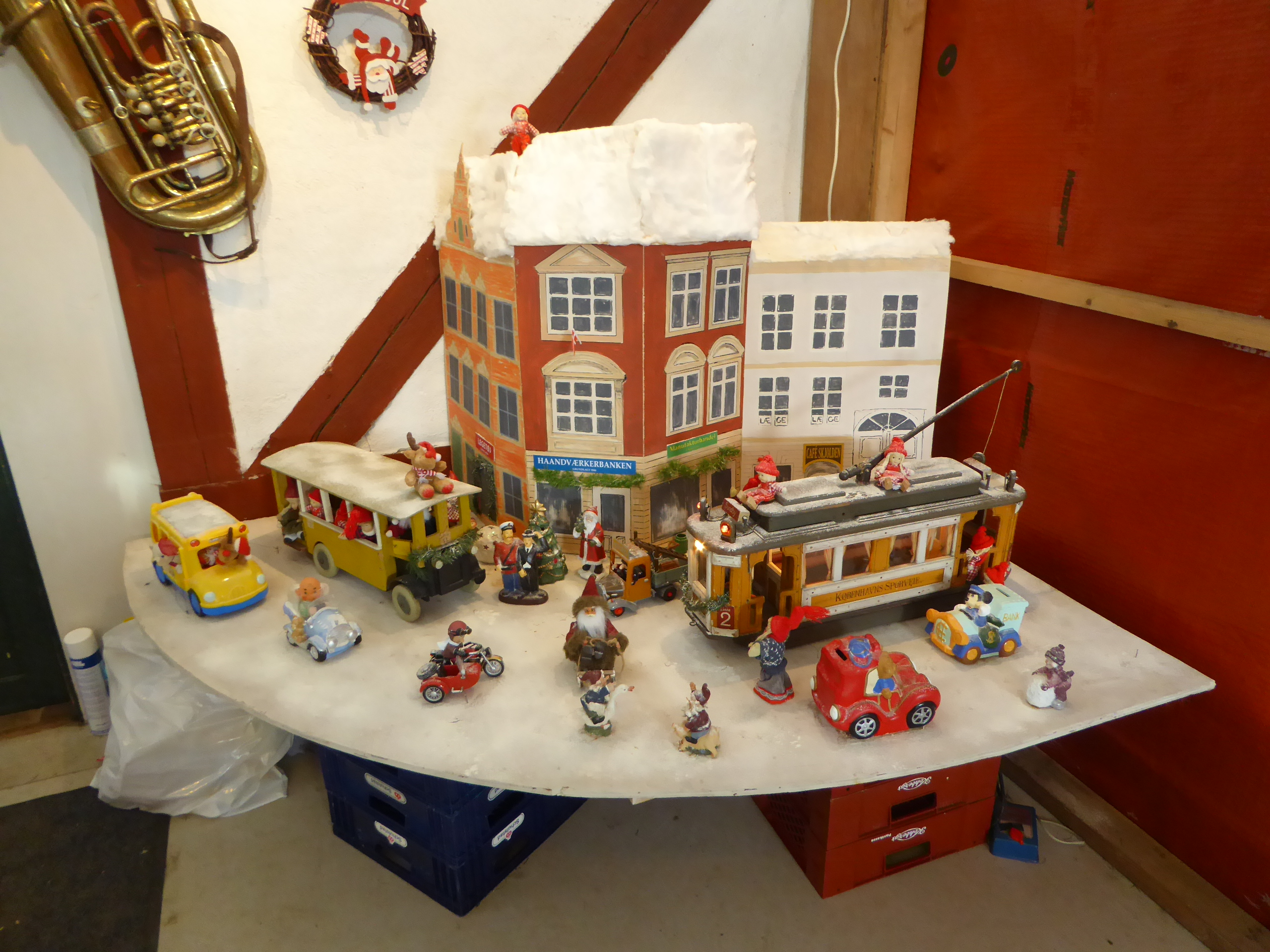 The tramway museum Sporvejsmuseet Skjoldenæsholm in Denmark open for Christmas. Christmas diorama.